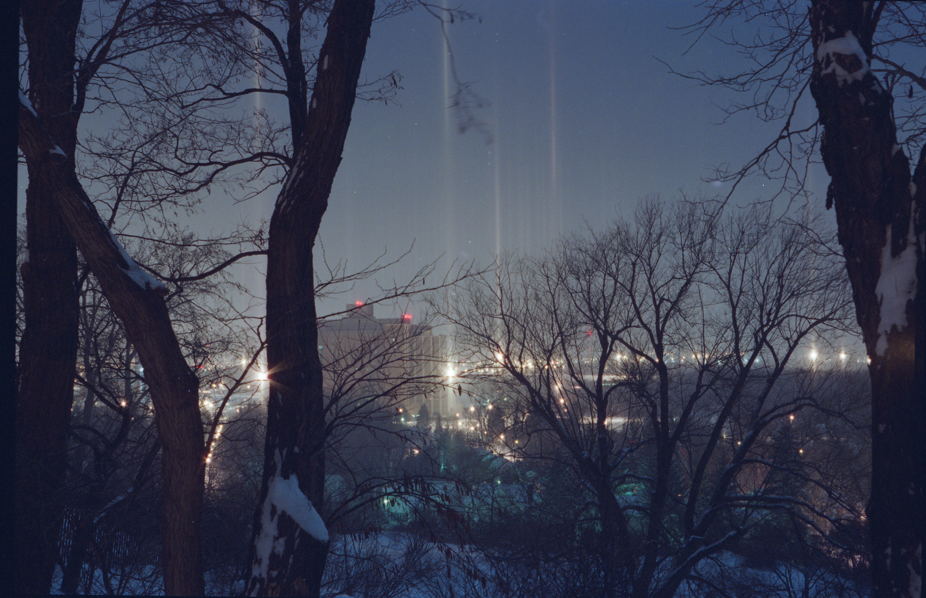 In the early morning hours of December 27, 1993, the National Weather Service reported "ice crystals" at the KROC Rochester Airport, a condition commonly known as "diamond dust". The condition manifested as "light pillars" by which all ground-based light sources reflect off the flat facets of the crystals, creating the illusion of pillars of light extending high into the air. This was photographed using a Pentax K-1000 camera on Kodak Gold 400 film.